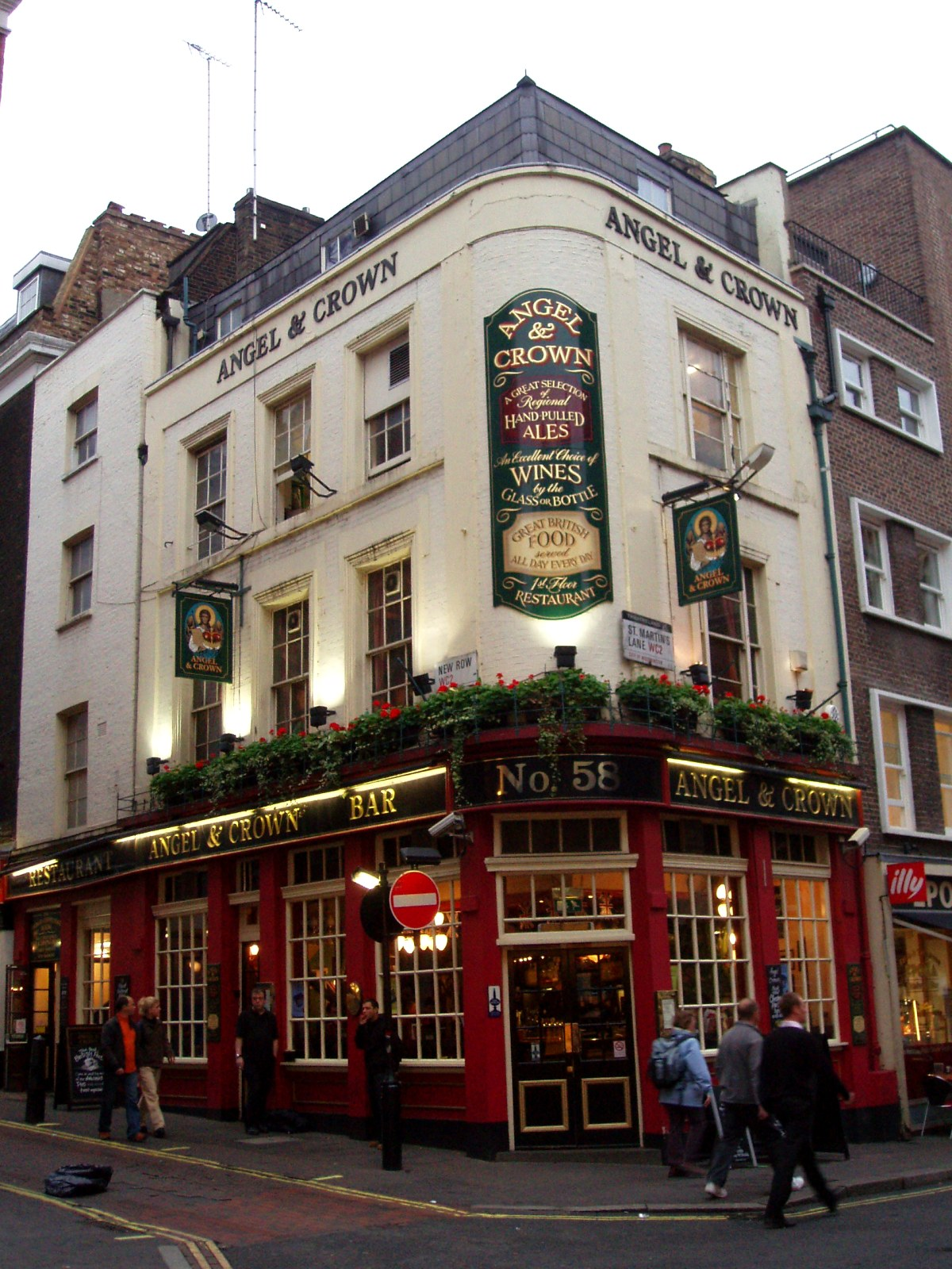 Attractive place on St Martin's Lane. It reopened late-2011 as an ETM Group gastropub. Address: 58 St Martins Lane. Owner: ETM Group; Faucet Inn Pub Co (former); Mitchells and Butlers [Nicholson's] (former); Combe & Co (former). Links: Fancyapint Beer in the Evening Dead Pubs (history)